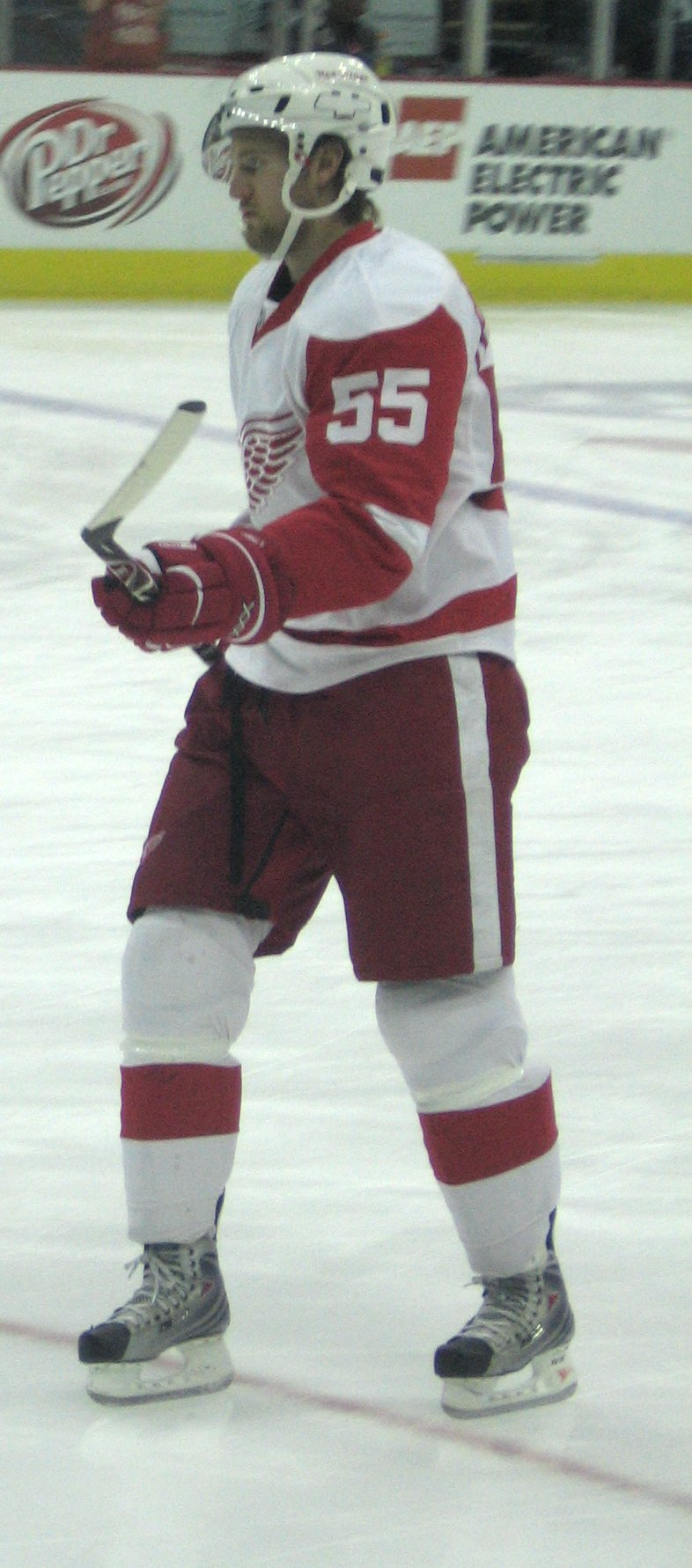 Niklas Kronwall of the Detroit Red Wings warms up prior to their game against the Columbus Blue Jackets